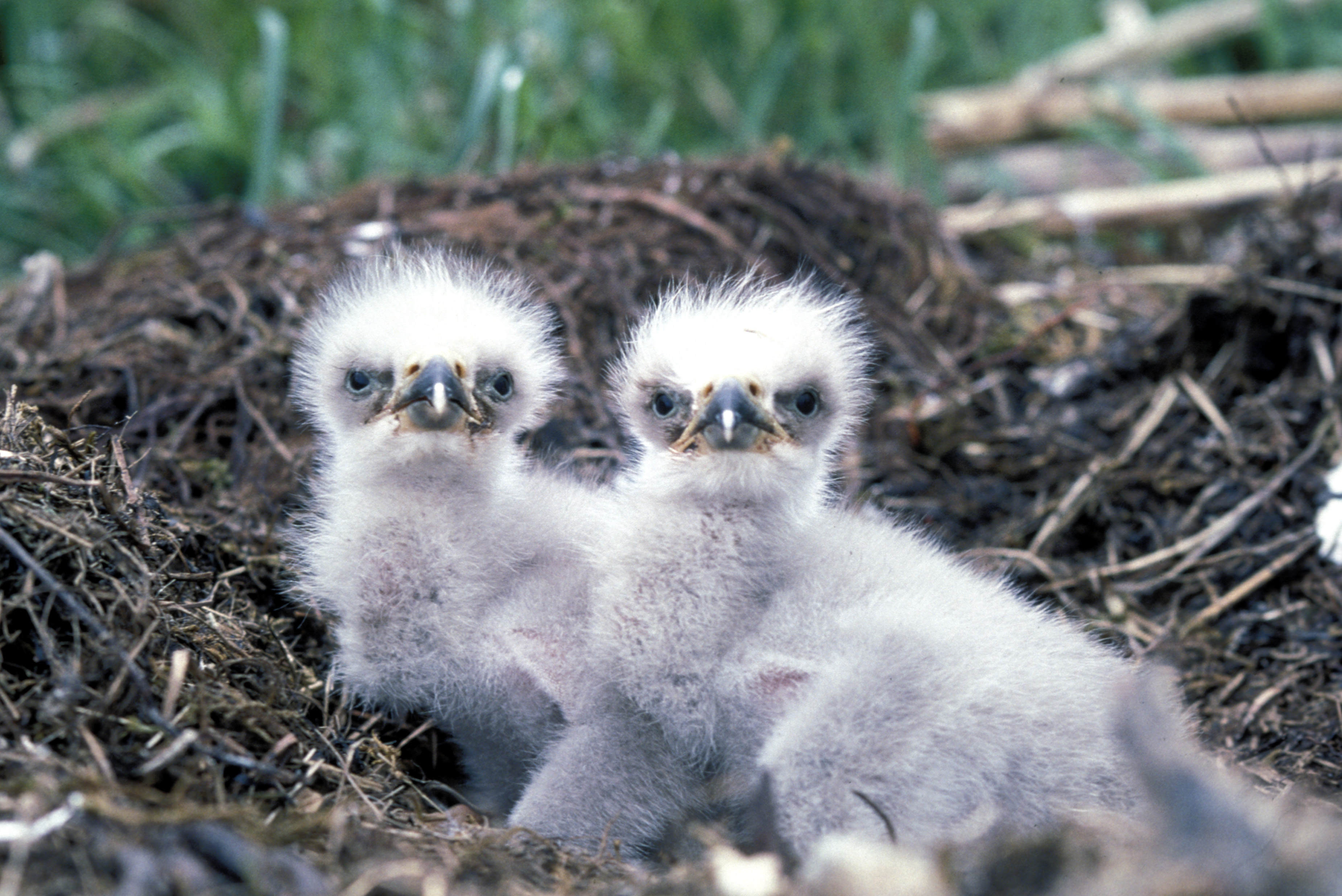 Bald eagle chicks (Haliaeetus leucocephalus) in nest on Kodiak Island